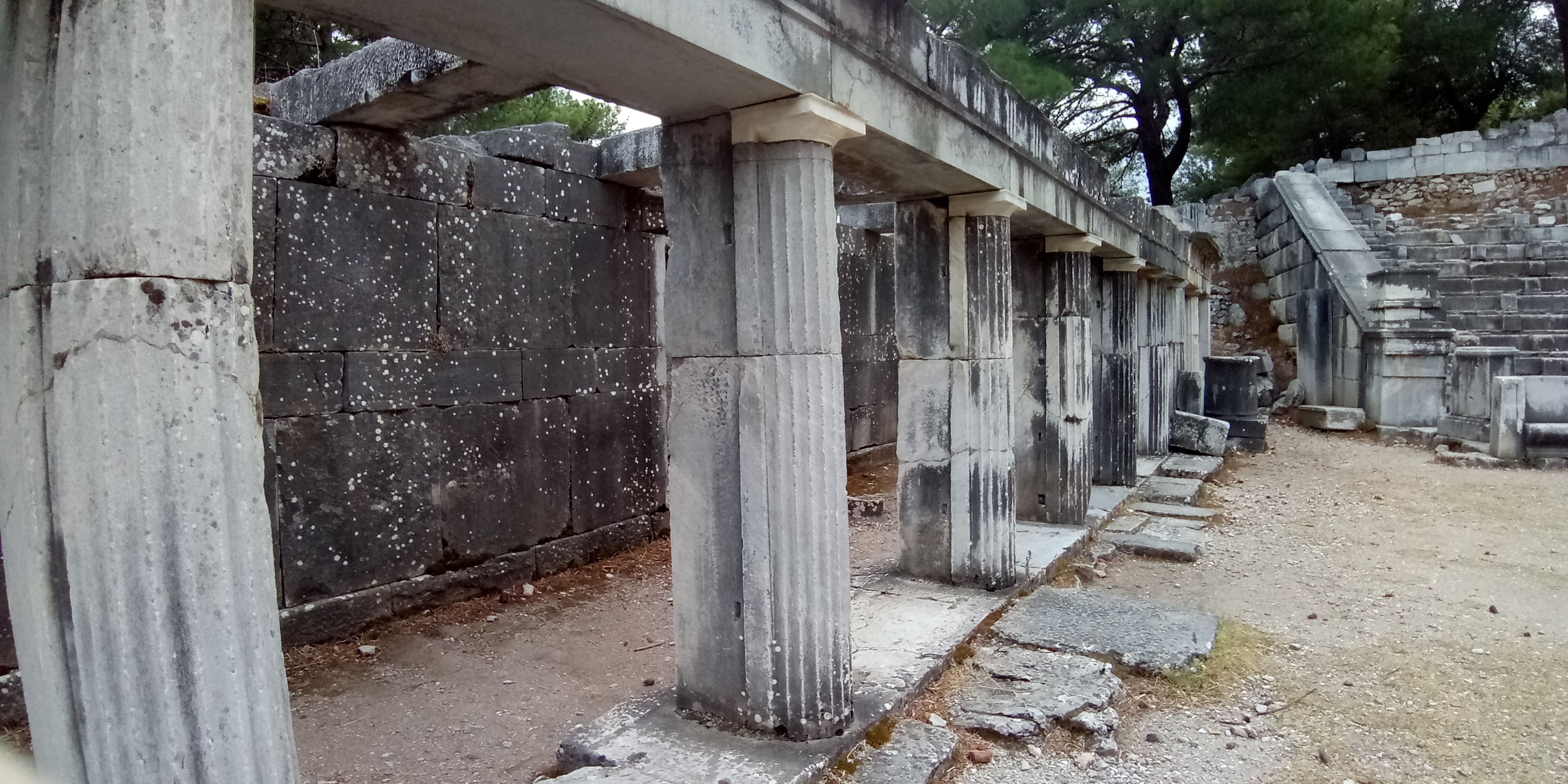 Proscenium of the Greek theater at Priene, looking west